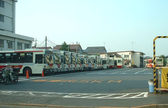 Asagaya branch office of Kanto bus in Toyko